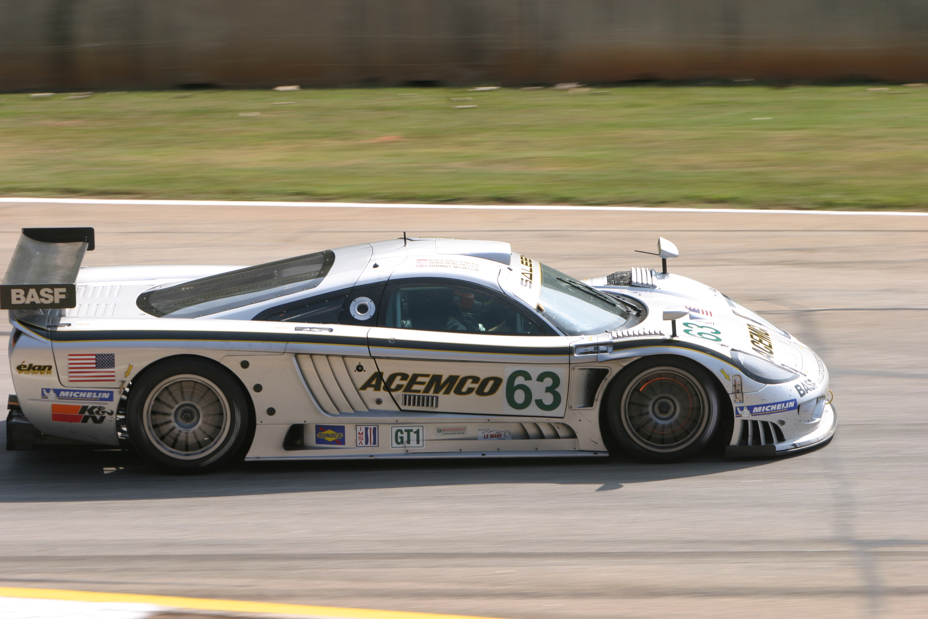 № 63 Saleen S7R - GT1 ACEMCO Motorsports, LLC Road Atlanta Petit Le Mans October 1, 2005 Round 9 American Le Mans Series Terry Borcheller (USA)/Johnny Mowlem (GB)/Ralf Kelleners (GER) (373 laps) - 3rd place